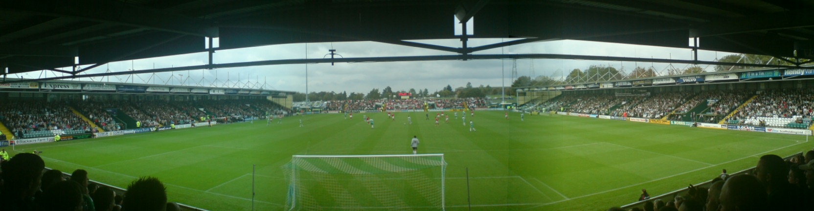 Huish Park from the Carlsberg Stand (Home Terrace), during the Yeovil Town v Nottingham Forest match, September 2007